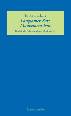 Book cover of Erika Burkart "Langsamer Satz" 2002